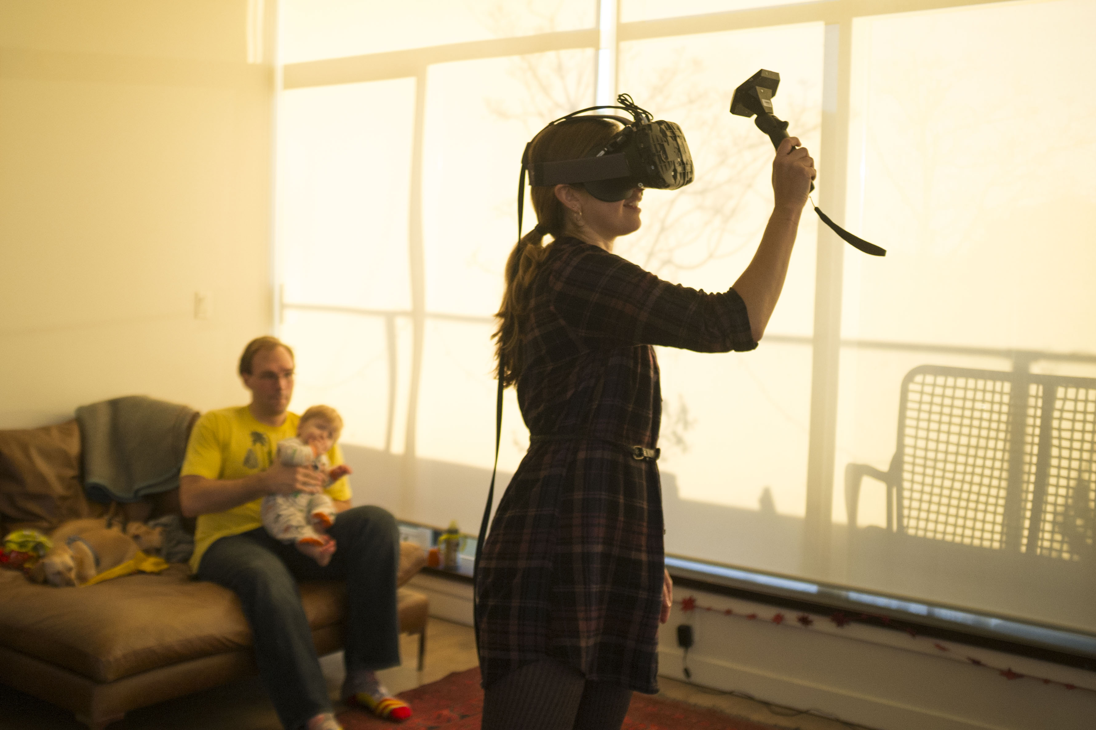 Christy in VR